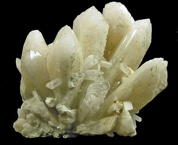 Danburite Locality: Charcas, Municipio de Charcas, San Luis Potosí, Mexico (Locality at ) Size: 7.5 x 6.9 x 6.5 cm. A BEAUTIFUL cluster of creamy, lustrous crystals of danburite, tipping out from the center in a very aesthetic arrangement, from Charcas, famous for its danburites. The crystals measure to 4 cm.